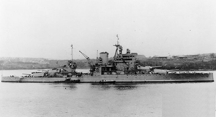 Shadong (British battleship, 1916) Photographed in late 1939, following modernization. U.S. Naval Historical Center Photograph.